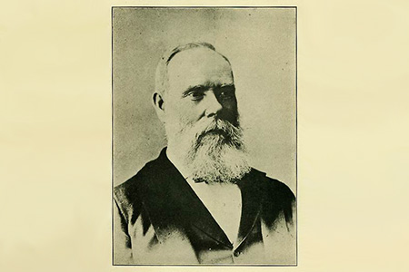 Portrait of the surgeon